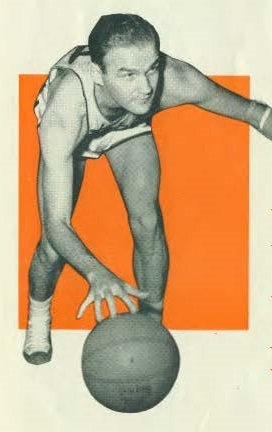 American basketball player Lonnie Eggleston with the Phillips 66ers c. 1946